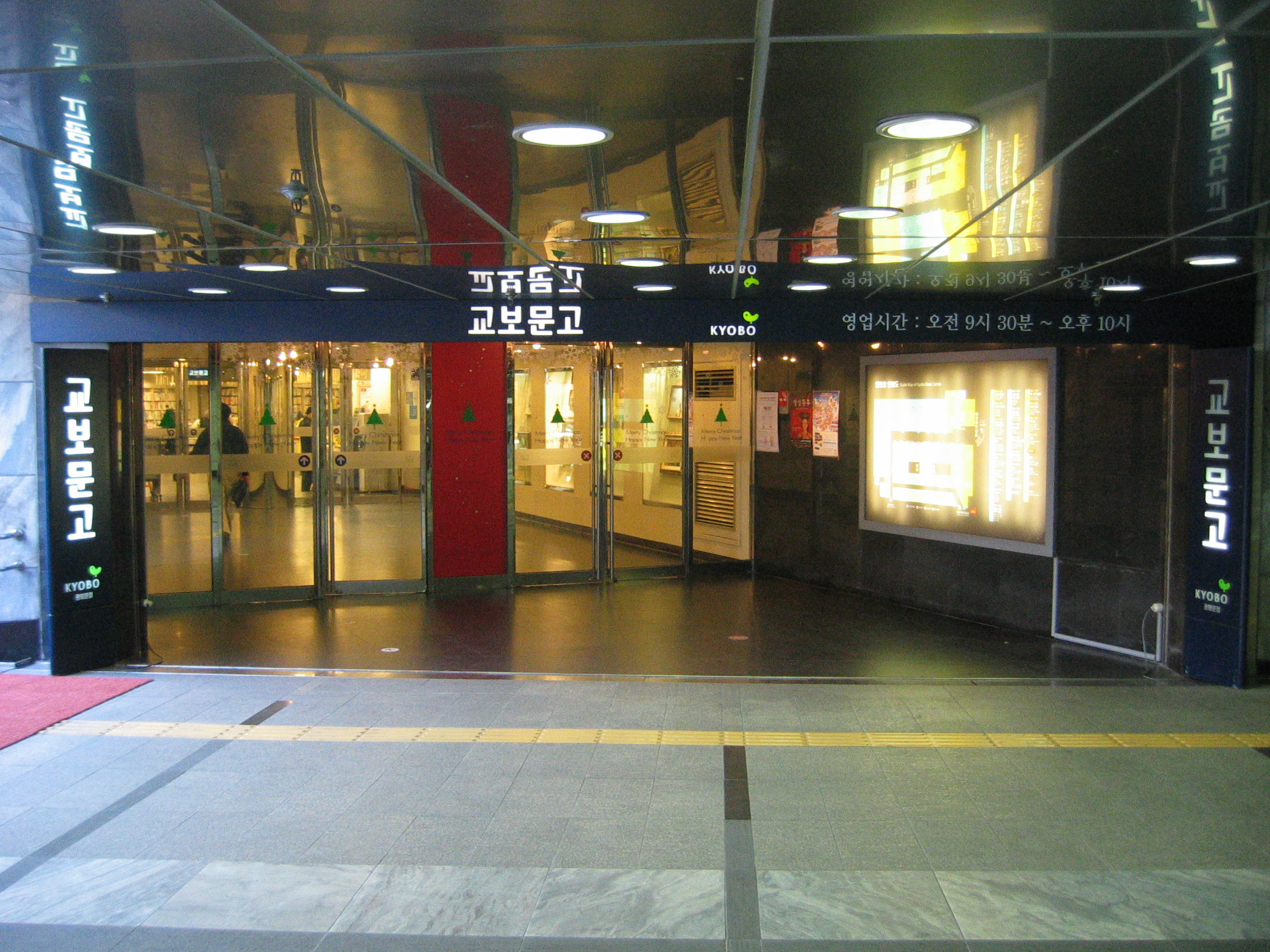 Entrance of Kyobo Book Centre Gwanghwamun Branch,Jongrogu, Seoul, Korea